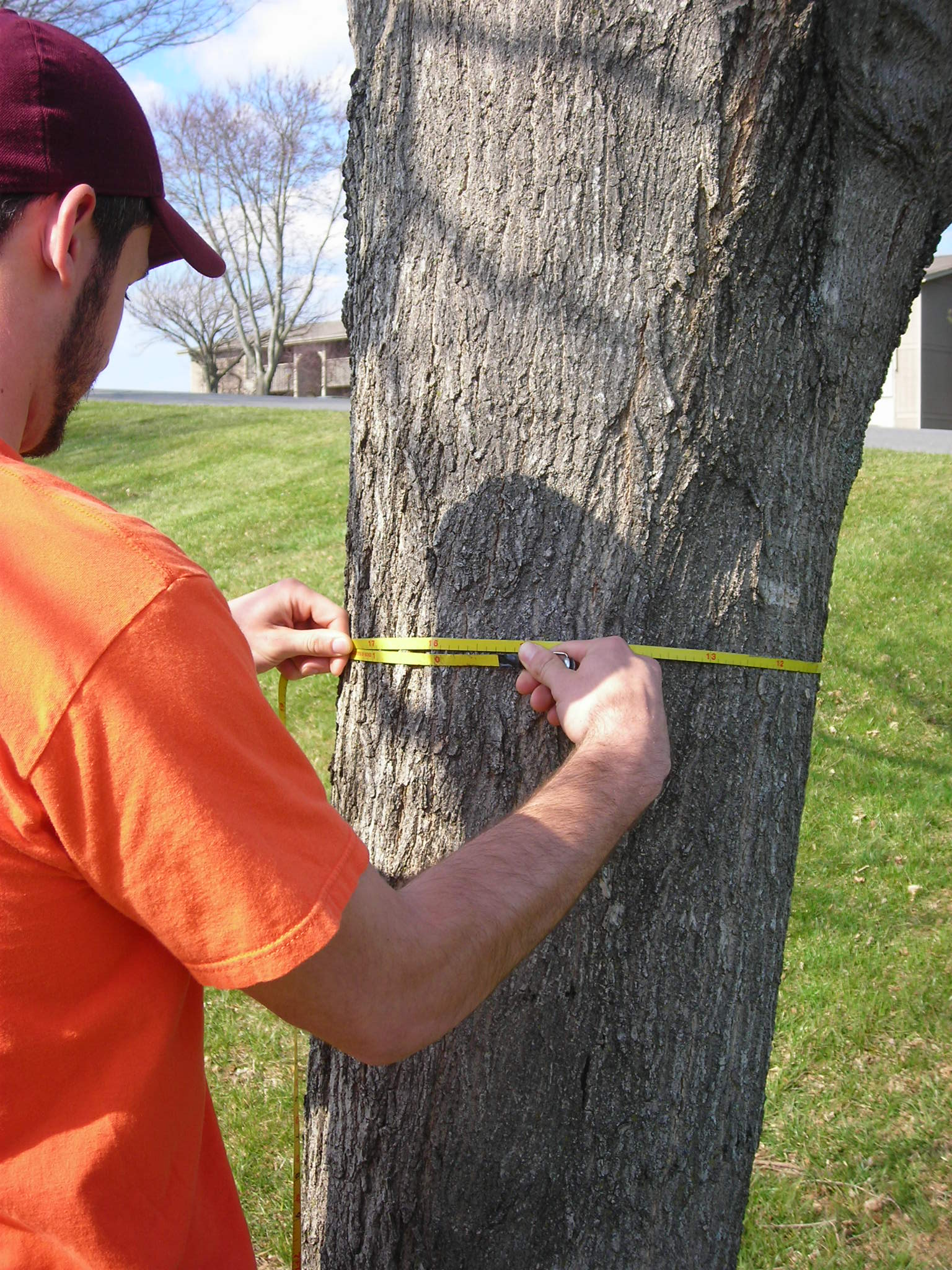 How to measure diameter using a Diameter Tape